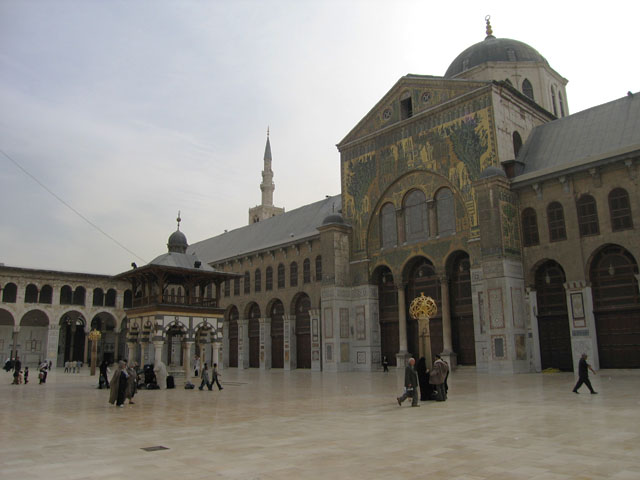 Umayyad Great Mosque.